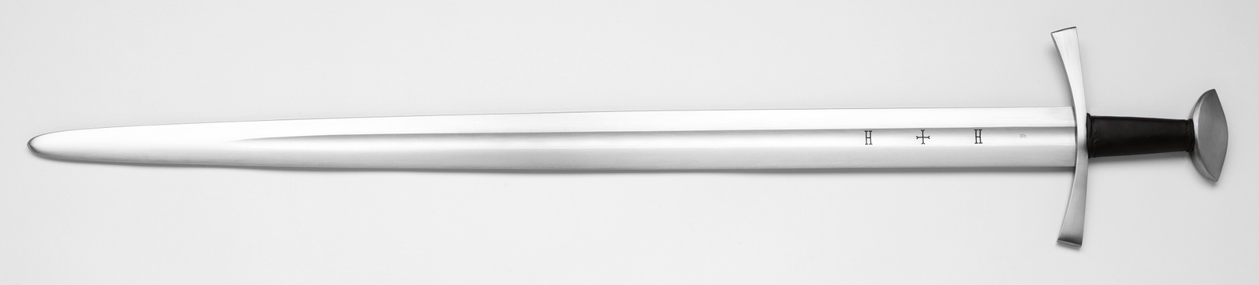 Albion Swords replica of the 13th-century "Sword of Saint Maurice" of Turin.